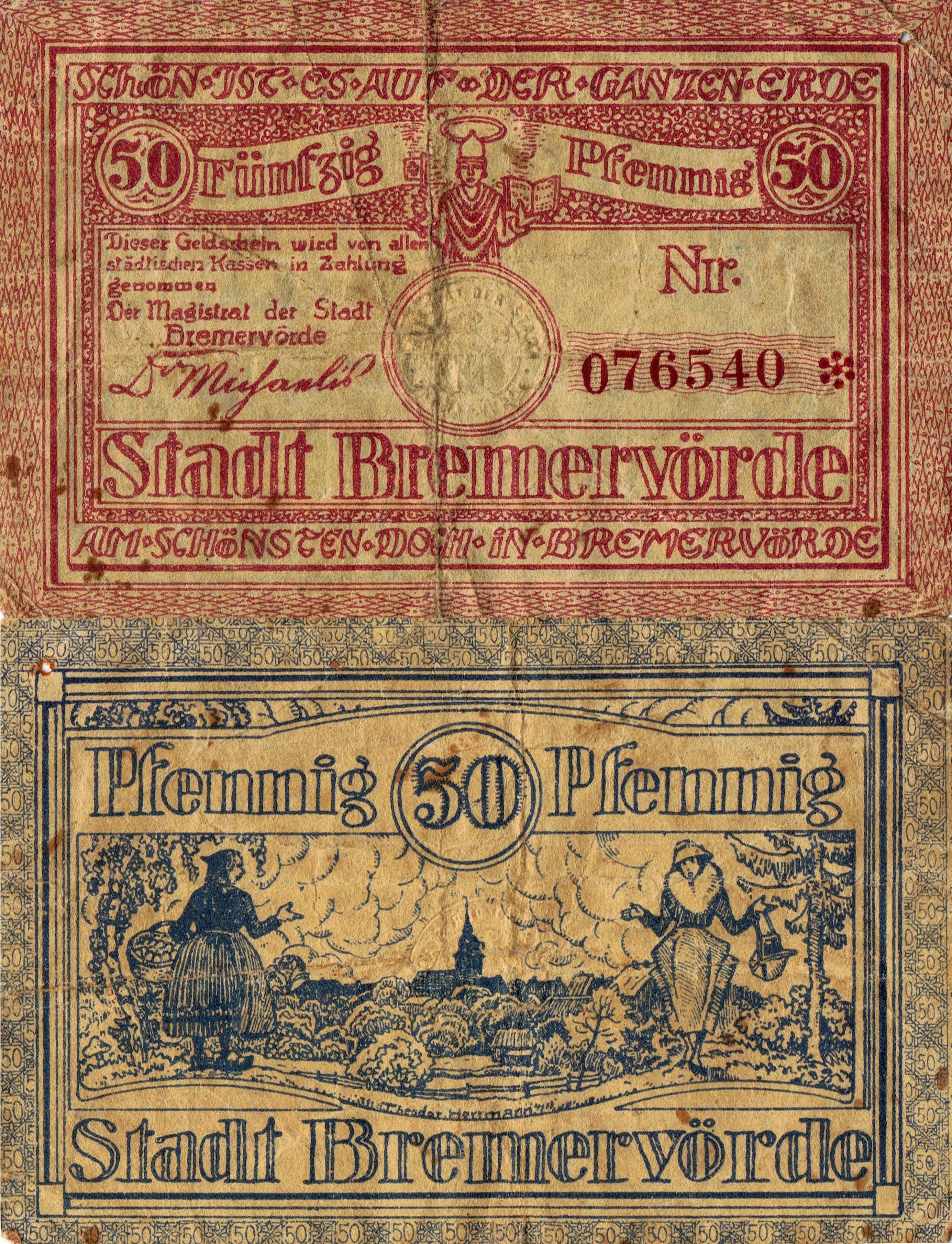 This image schows the front- and backside of a 50-Pfennig money property which was given out by the town Bremervörde. Wording of edge lettering: "It is beautiful all over the world. But most beautiful in Bremervörde." Dimensions: 8,4cm x 5,6cm